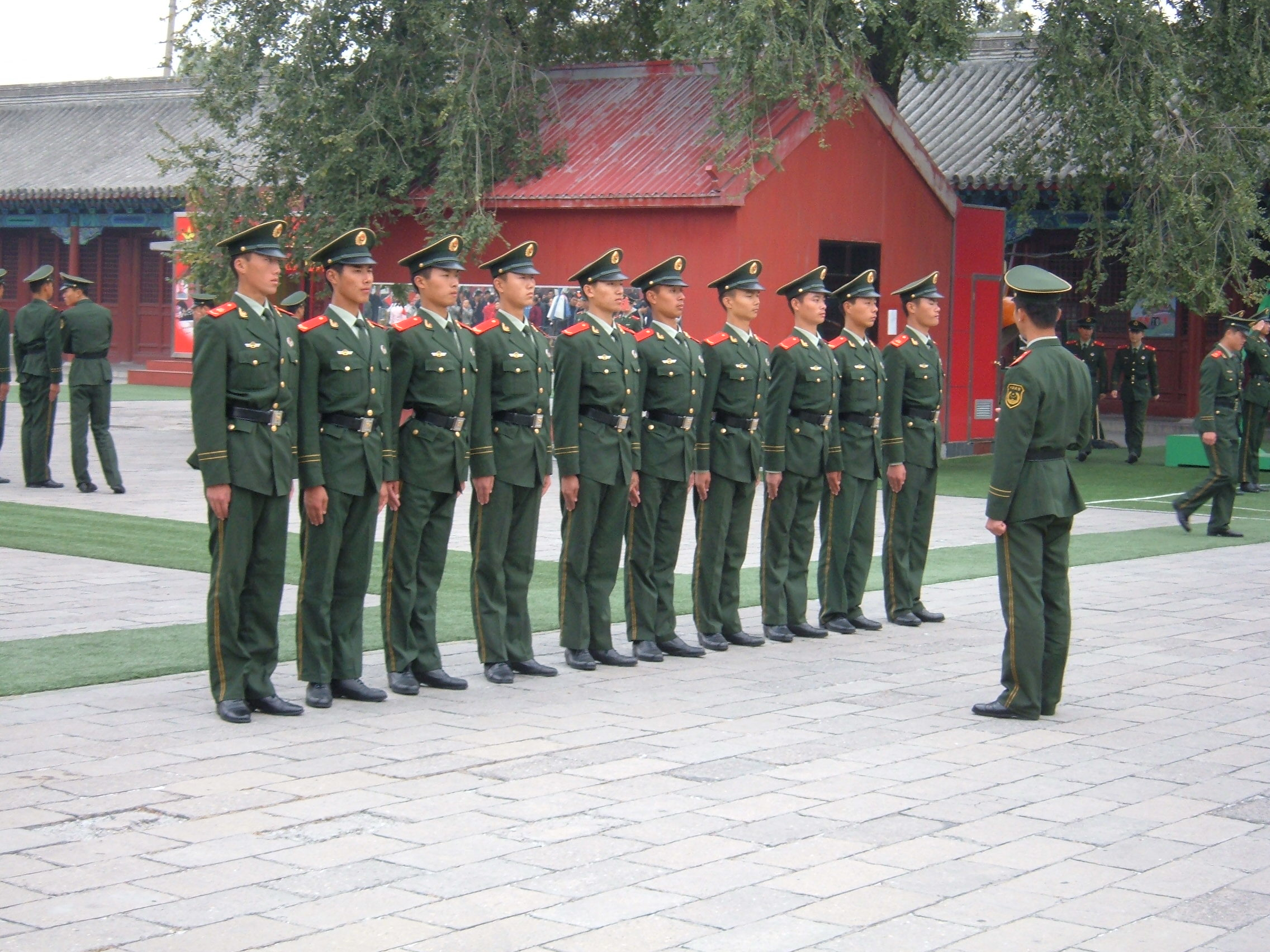 Squad of the People's Armed Police in the courtyard of the Forbidden City outside the Meridian Gate in Beijing, PRC.